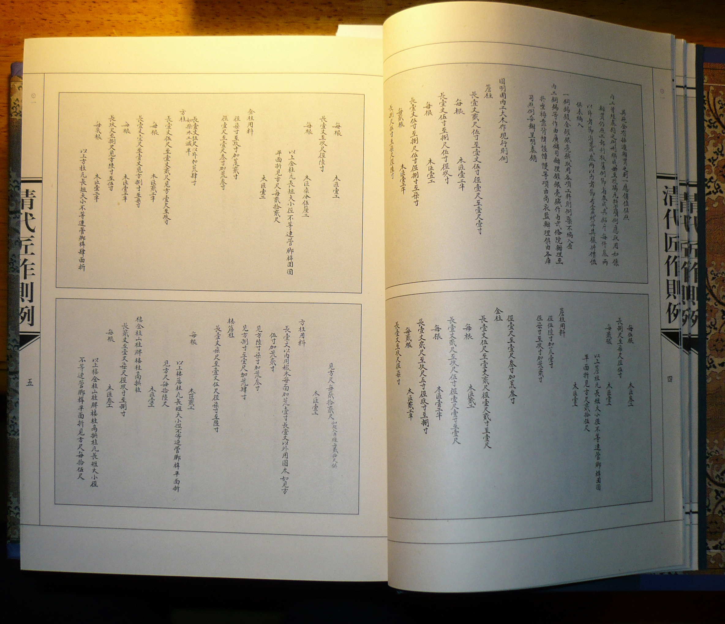 Old Summer Palace carpentry regulation